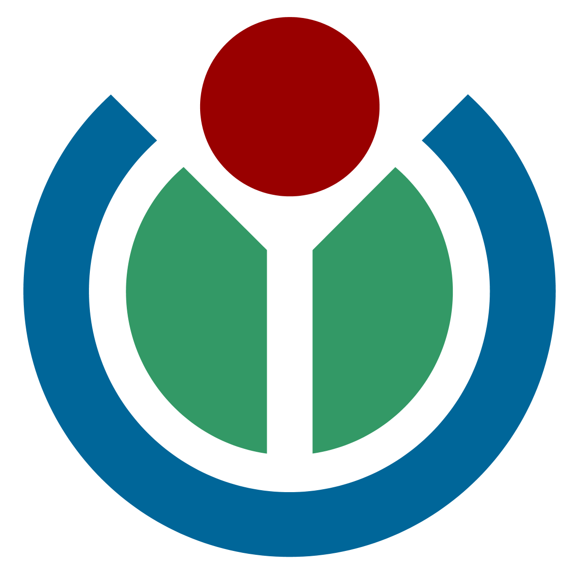 Wikimedia logo